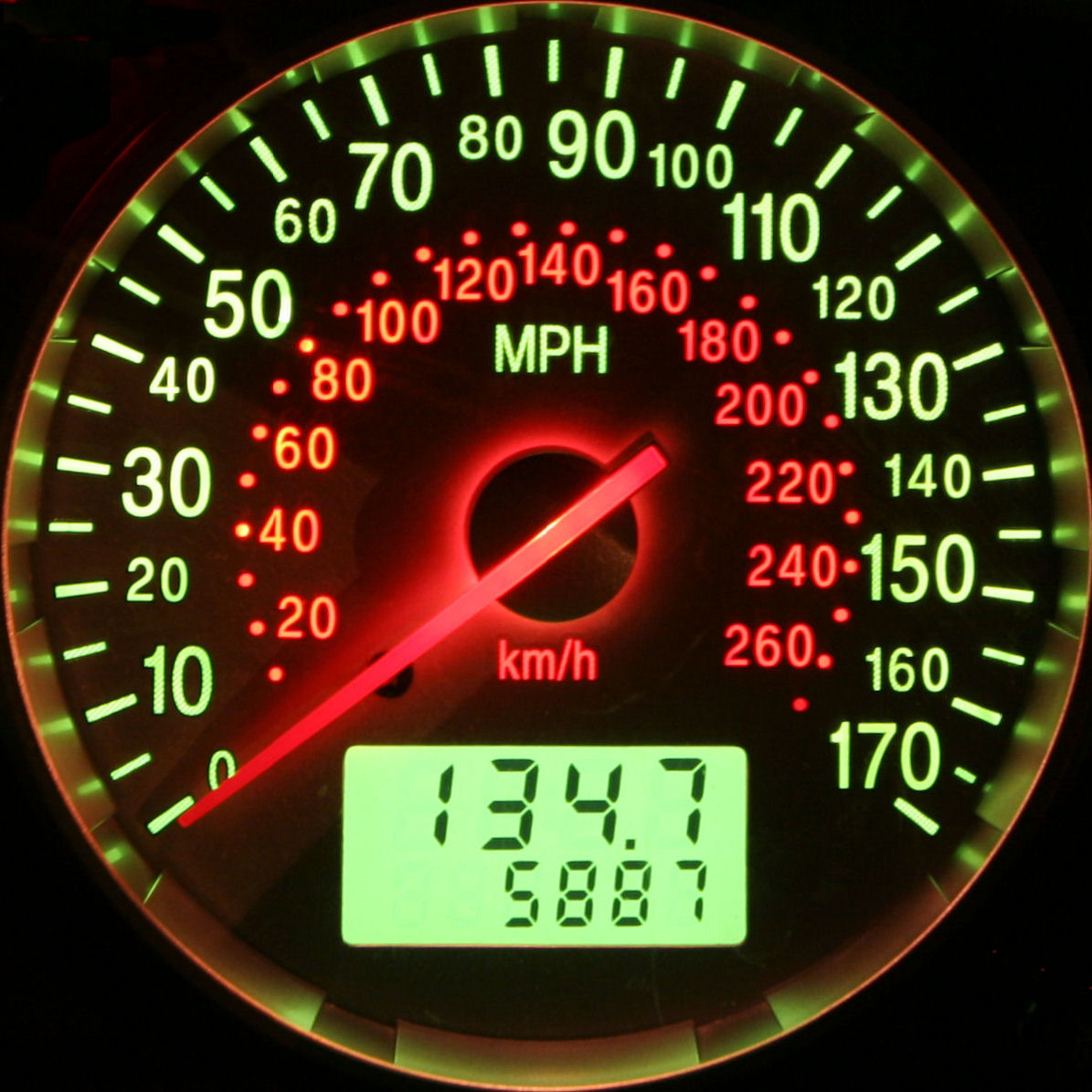 Speedometer in Ford Mondeo ST220 (MK3) (highlighted).